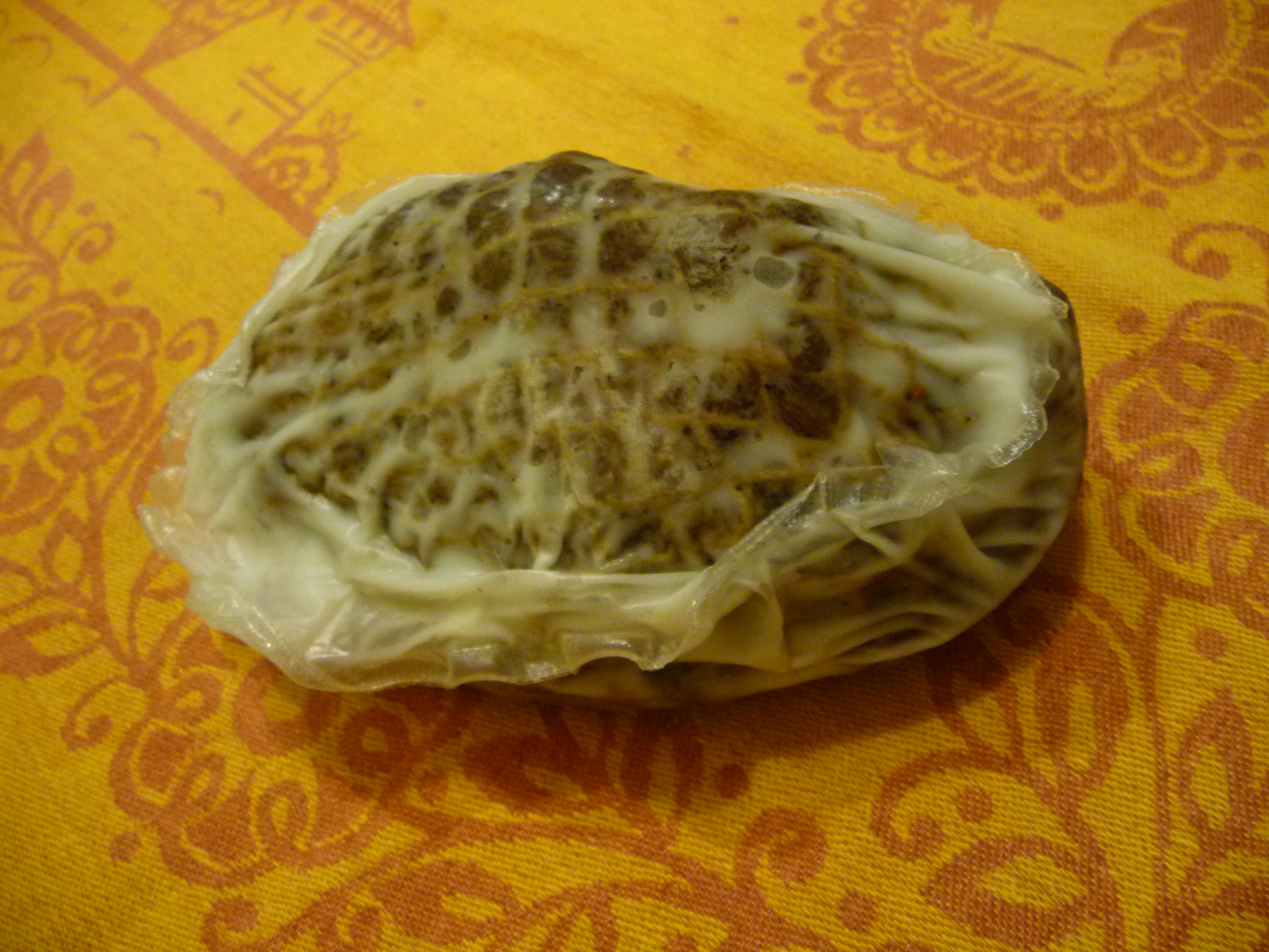 Carne mechada (Andalusia pork) packaged